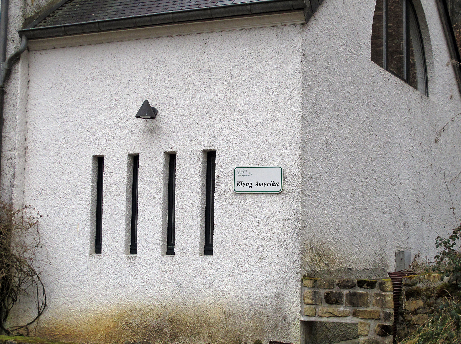 Place called "Kleng Amerika" near Dondelange, Luxembourg